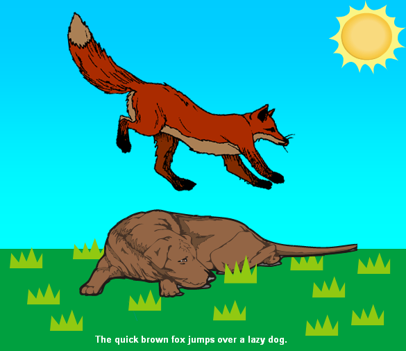 A cartoon image showing an action described as,"The quick brown fox jumps over a lazy dog." (English Pangram sentence.)